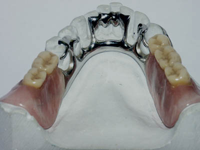 Partial denture with metal frame.